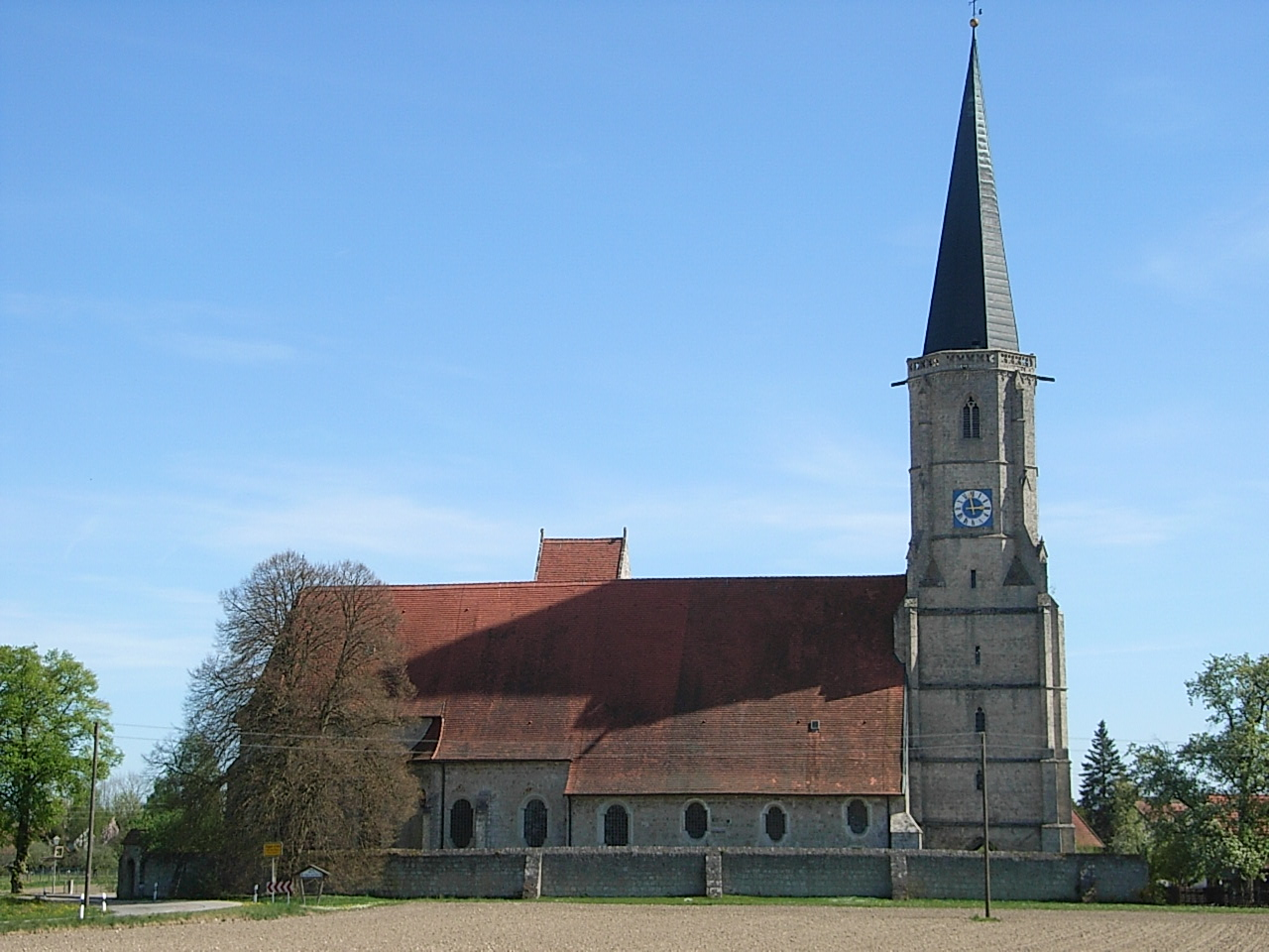 Aigen am Inn, Sanctuary of St Leonard from north-west.